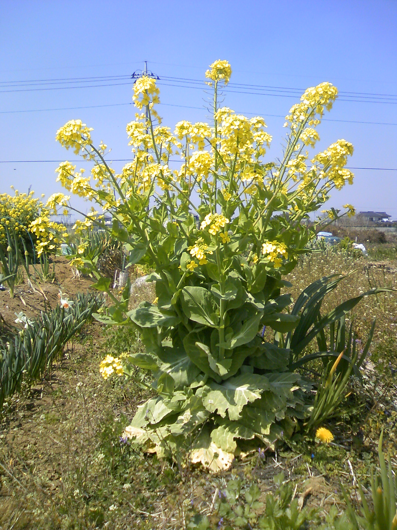 Blooming cabage.at Saitama,Japan.